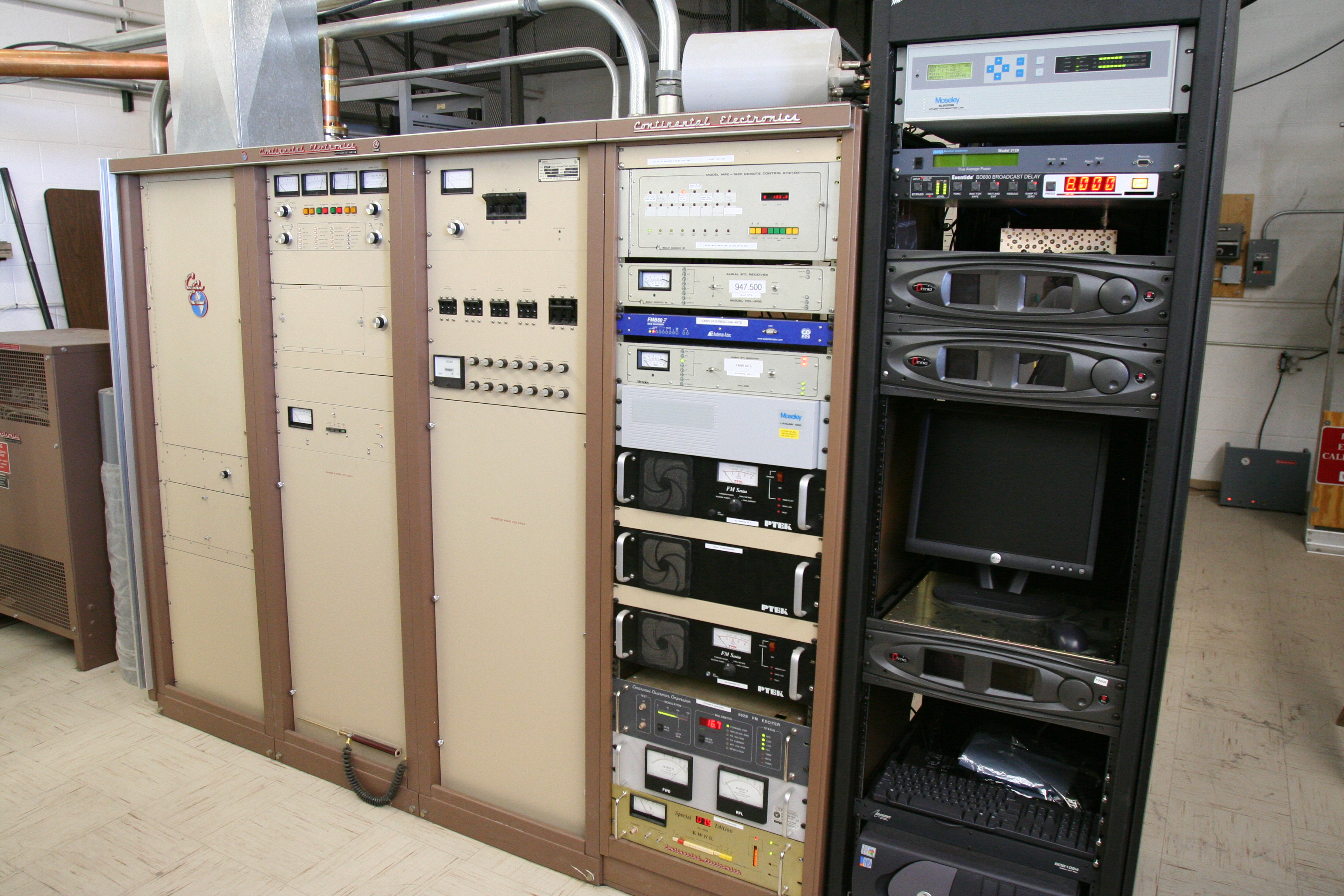 A Continental type 816R-5B 35-kW FM transmitter, serial number 247. This unit belongs to KWNR (95.5 Las Vegas) and is located at the Black Mountain shared transmitter facility in Henderson. Site access courtesy of Clear Channel Communications and Tree Lee.The power amplifier stage of the transmitter is located in the three cabinets at left. From the Varian Associates logo next to the nameplate, one can deduce that this unit was made between 1985 and 1990. At the bottom of the center amplifier cabinet is a grounding probe, which is used by technicians anytime the case is opened to touch the high voltage terminals inside to discharge any residual voltages left on capacitors prior to performing maintenance. The second cabinet from right contains (from the top) a Moseley remote control system, a Moseley analog studio-transmitter link receivers, an Audemat-Aztec RDS encoder, another STL receiver, some equipment I can't identify, a Continental type 802 exciter (FM signal generator), forward and reflected RF power meters, and another unknown device. The rightmost cabinet contains a Moseley digital studio-transmitter link, a Bird Electronics digital power meter, an Eventide digital delay (set for eight seconds), and three Omnia audio processors.